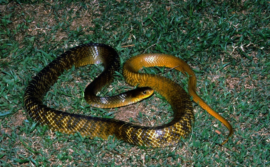 Montagne de Kaw, Guyane, FRANCE Scanned slide from 2001